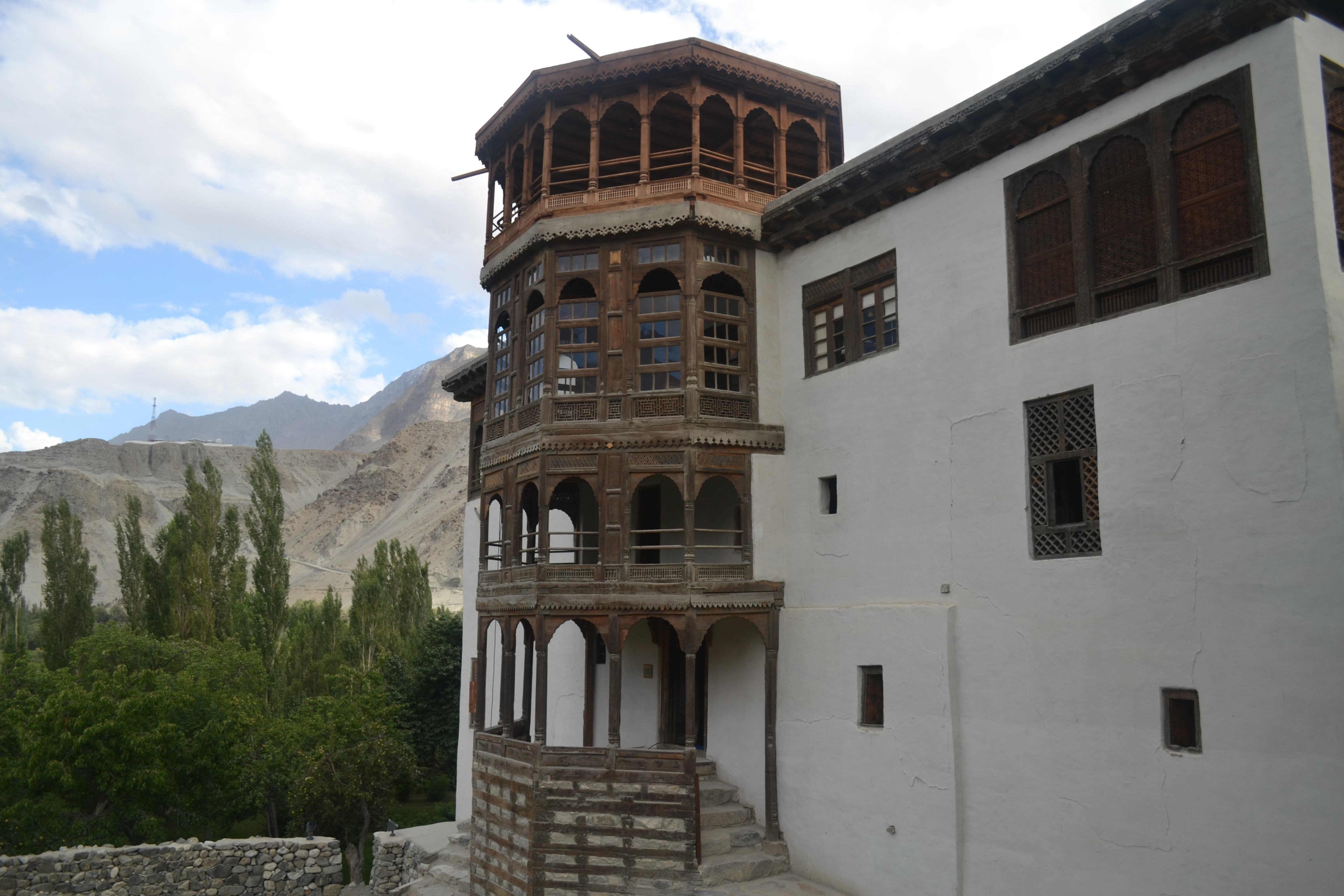 Picture of The Khaplu Fort.